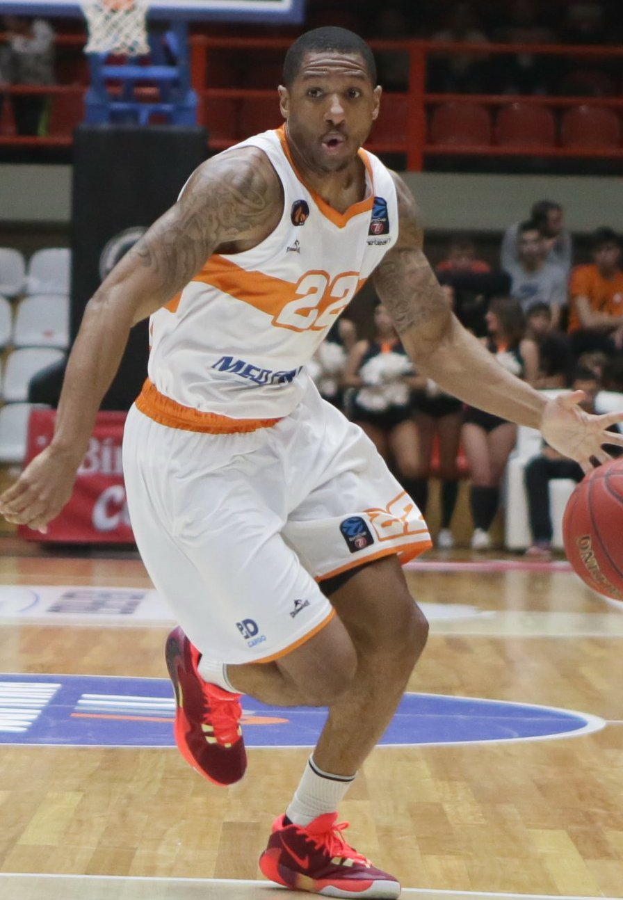 Basketball players Gerald Robinson (right) and Killian Hayes (left)